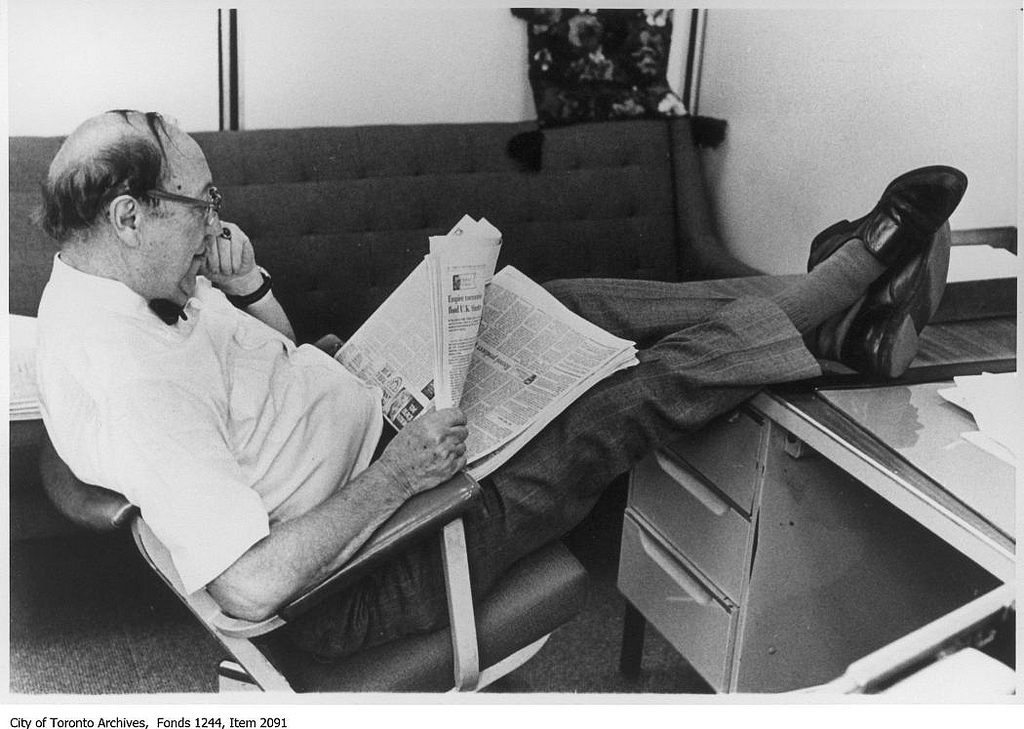 Photographer: Norman James ca. 1964 City of Toronto Archives Fonds 1244, Item 2091